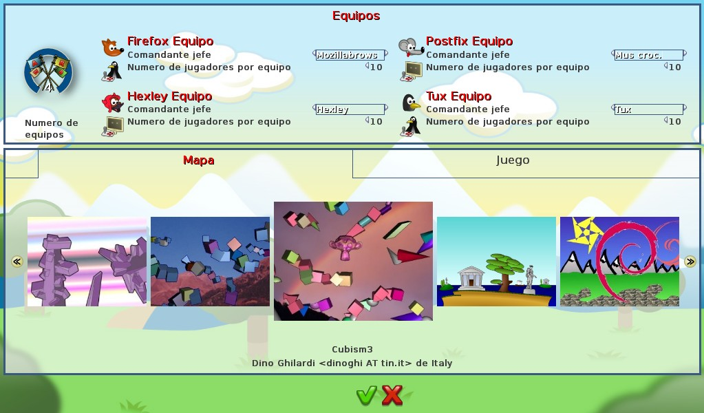 Own Screenshot